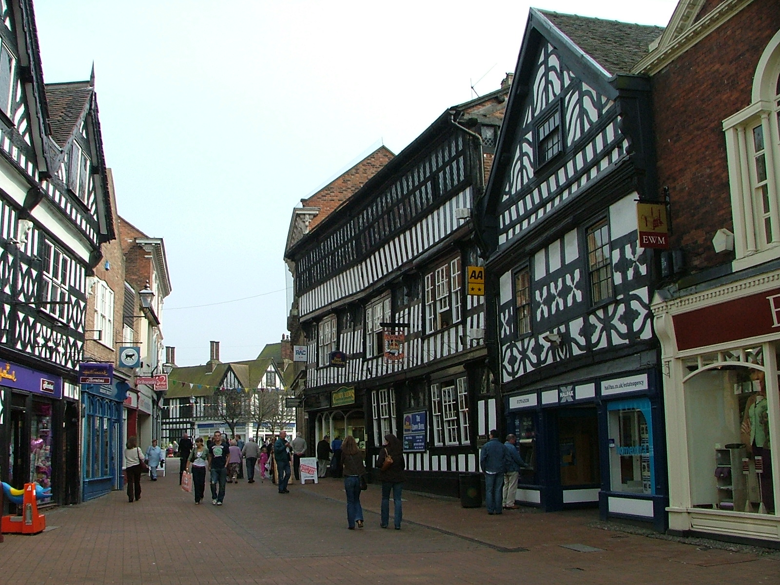 High Street, Nantwich